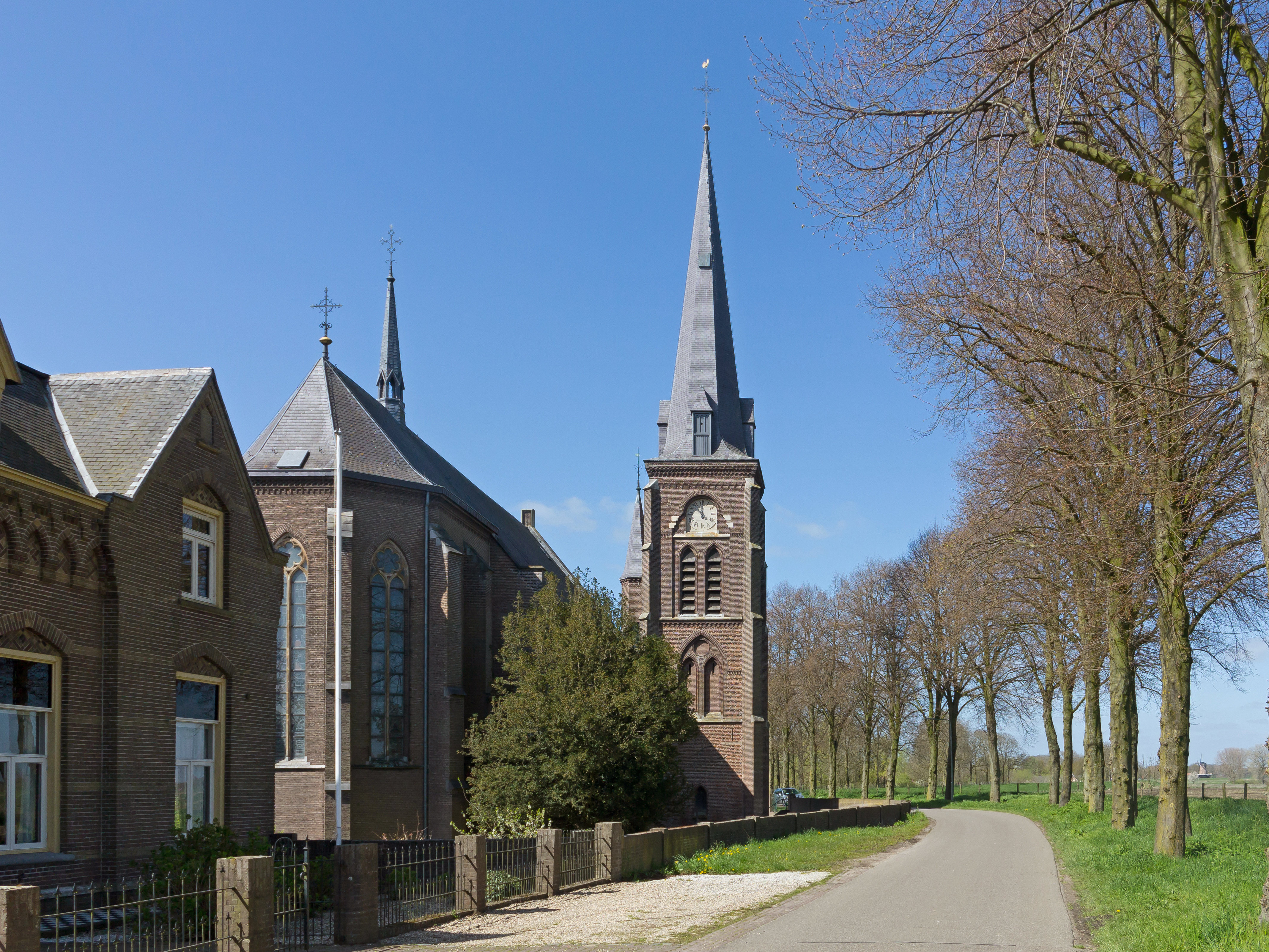 Demen, church: de Sint Willibrorduskerk